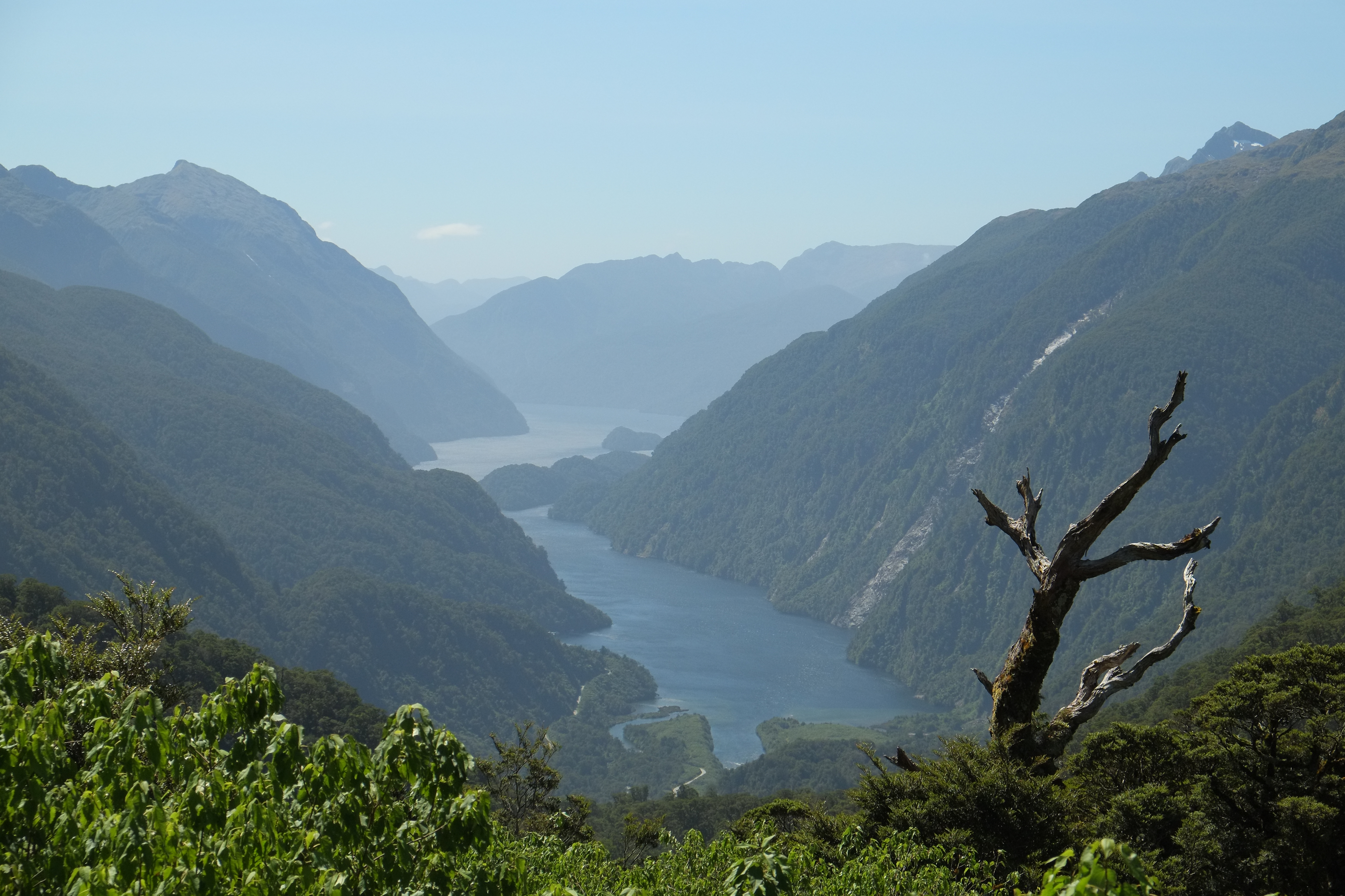 Afternoon view from Wilmot Pass down into Doubtful Sound